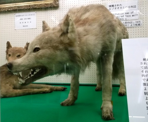 Extinct Yezo wolves mounted in an exhibition at Hokkaido University Museum, Sapporo, Japan.